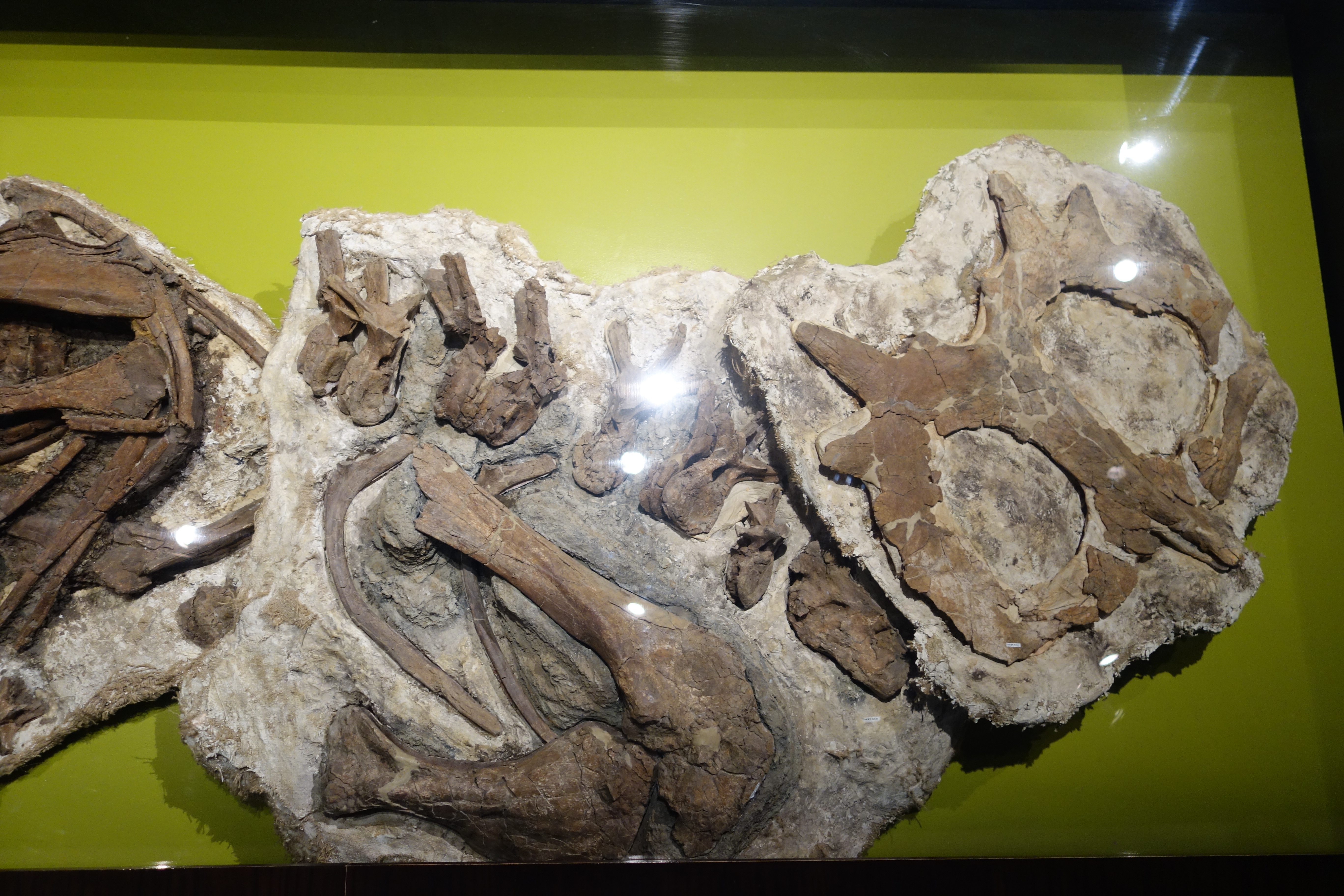 The Sage Creek Styracosaurus (Styracosaurus albertensis), the skull of which was reportet to the Royal Tyrrell Museum in 1989. Original, on display at the Royal Tyrrell Museum.